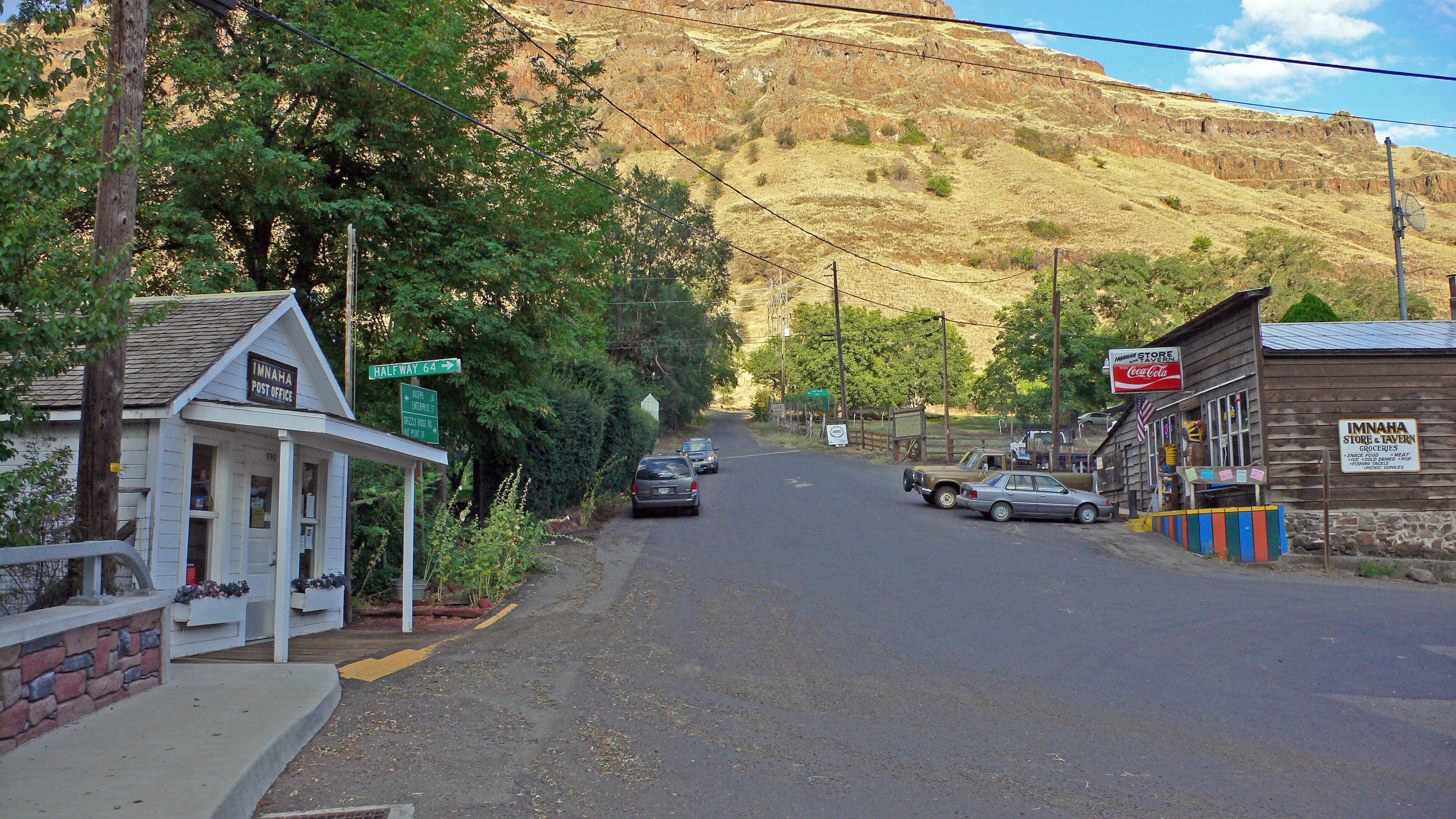 Center of Imnaha, Oregon -- from Imnaha River bridge, looking east. Photograph by Scott Mainwaring, 8/9/2006, 5:11pm.